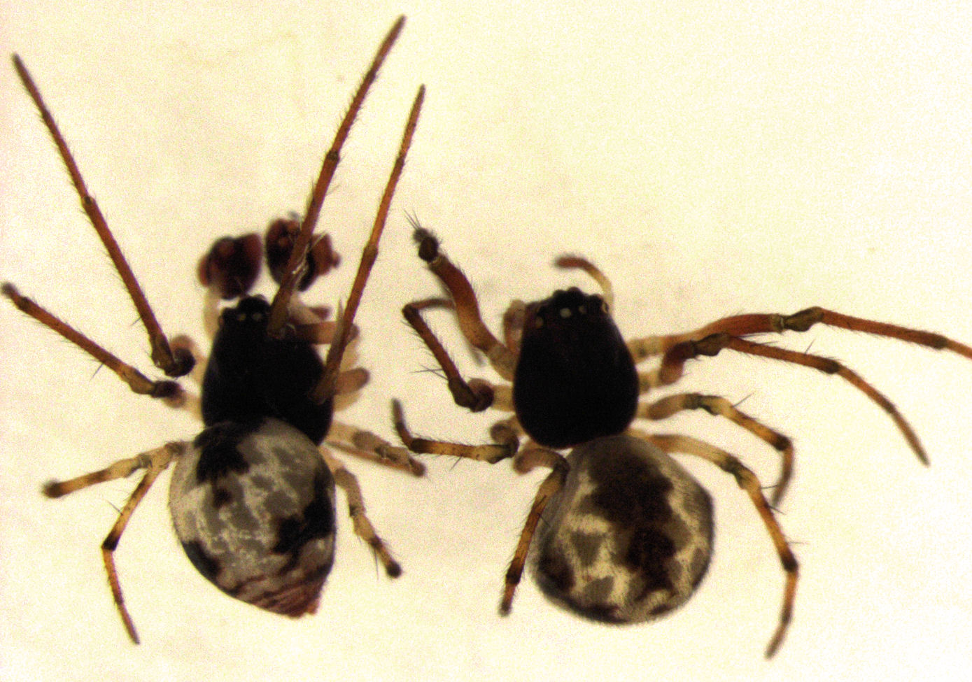 Tekella lineata (male, female) (length about 1.5 mm)